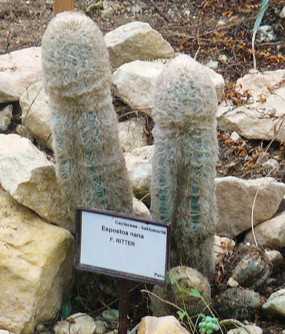 Espostoa nana, Botanical Garden - Teplice.